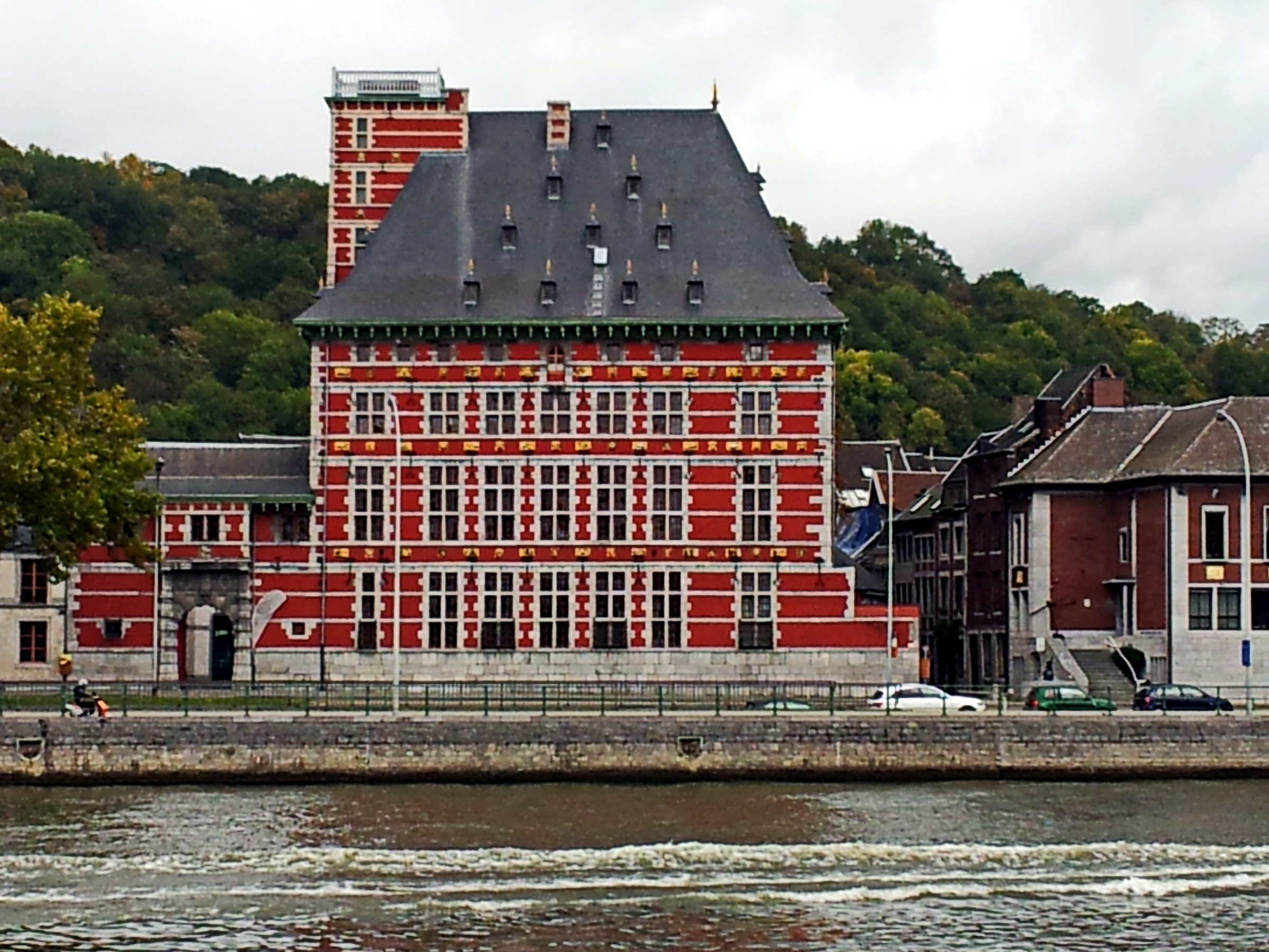 Liège, Belgium. View accross the river Meuse of Museum Grand Curtius.